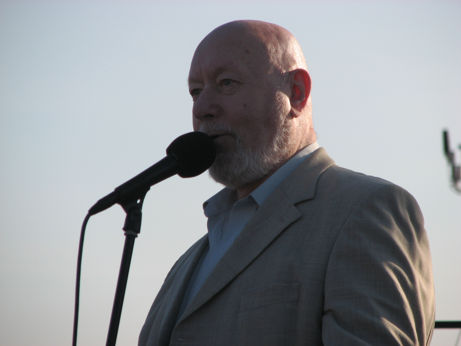 Vello Orumets performing in Kuressaare Maritime Days